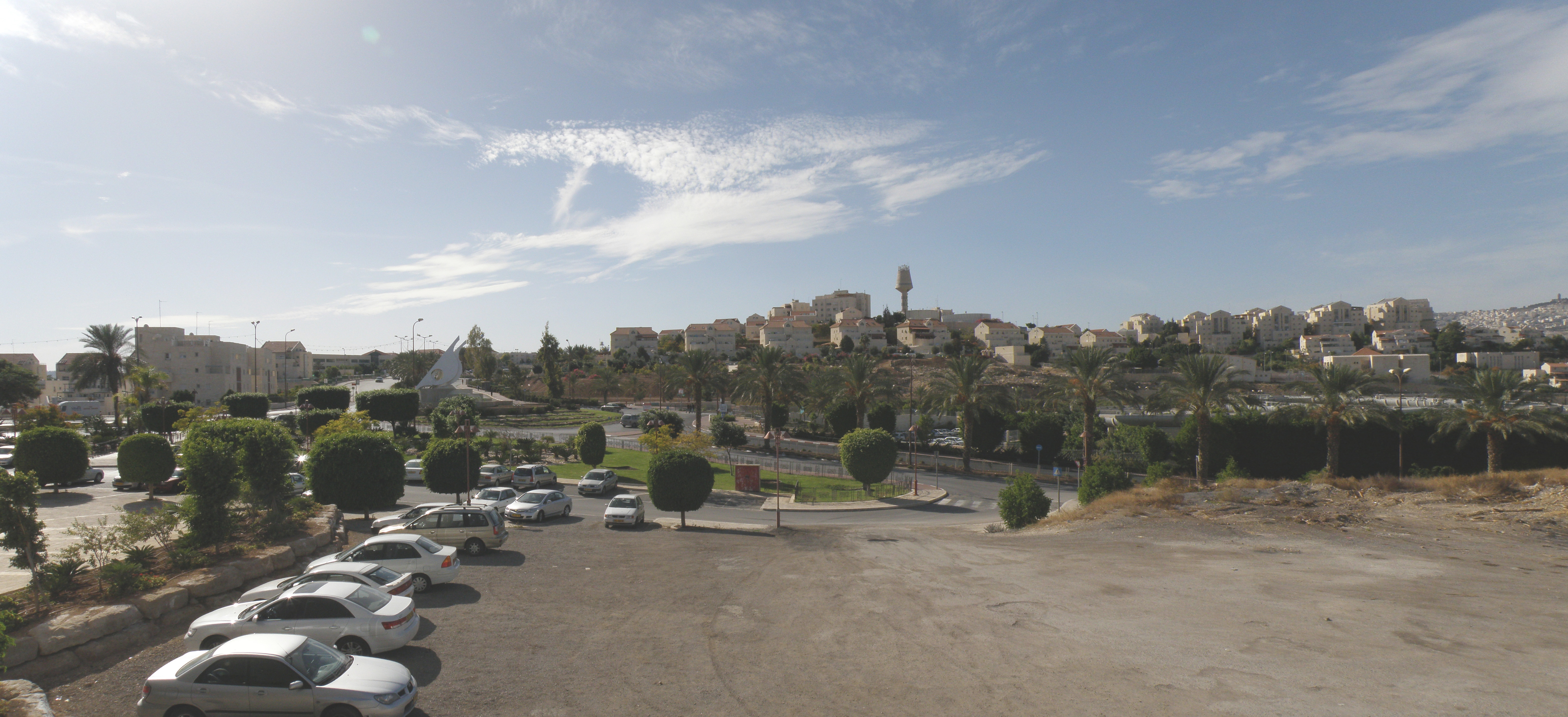 Panoramic view of Ma'ale Adumim from the mall